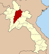 Map of Laos highlighting the province Louangphabang.